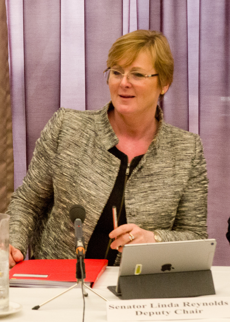 Senate Inquiry into the Roe 8 non compliance of enviromental conditions, Senate committee members